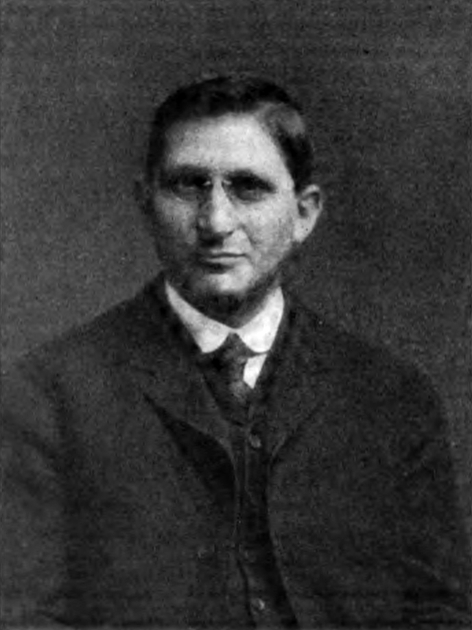 Cyrus Adler (September 13, 1863 – April 7, 1940) was a U.S. educator, Jewish religious leader and scholar.